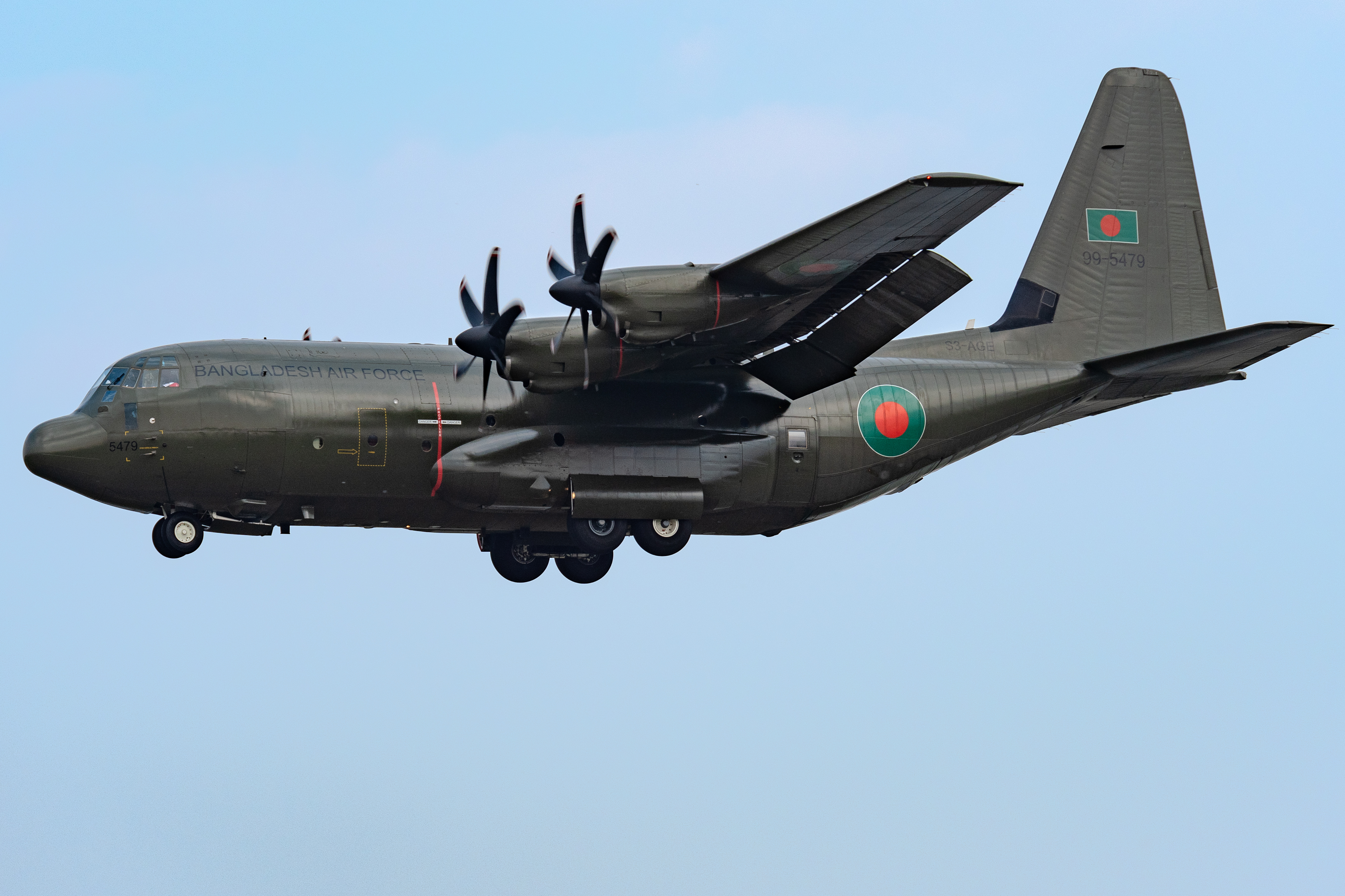 S3AGE from Chattogram, Bangladesh. Quite rare for a C-130 in Beijing...